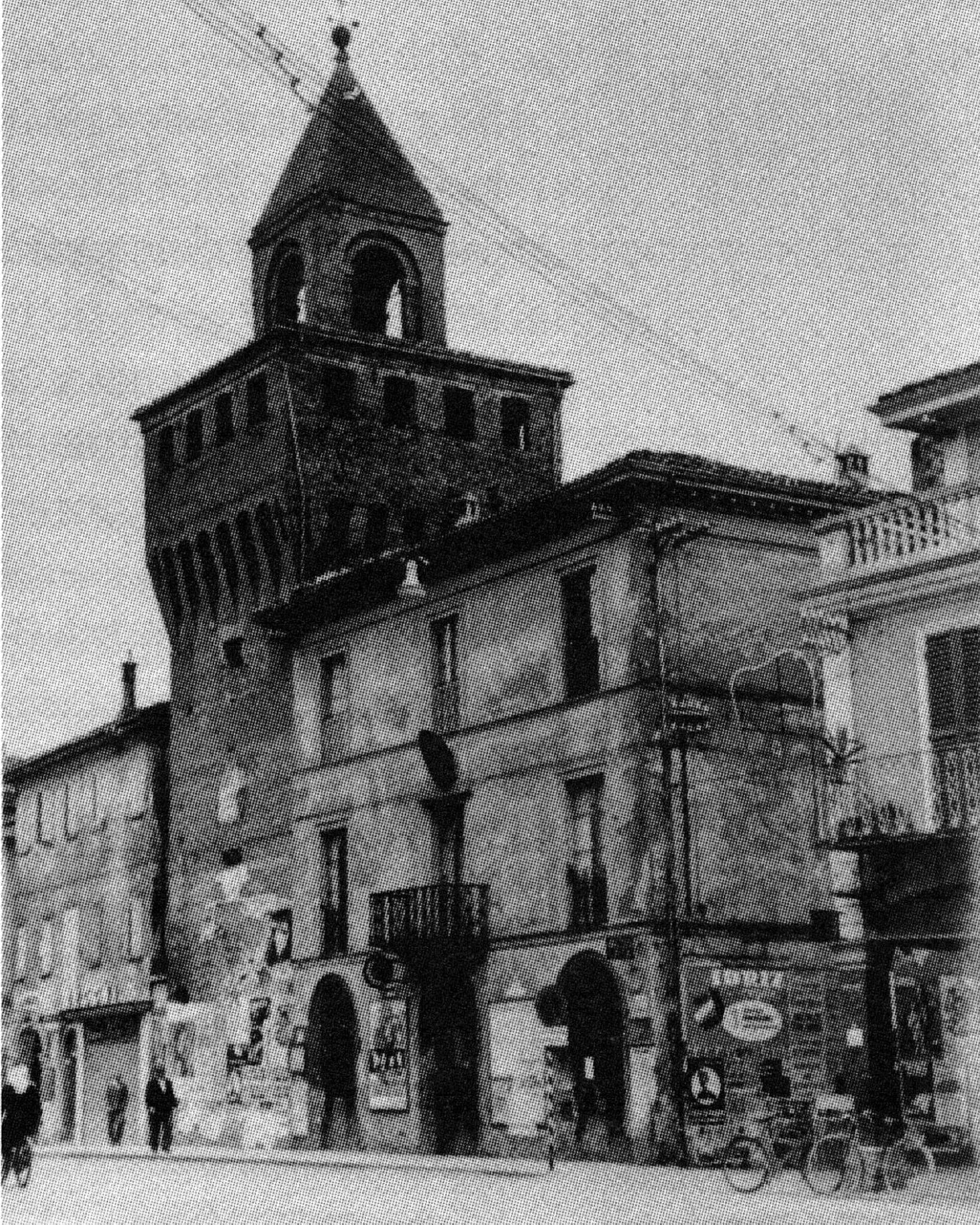 Santo Stefano Tower in Molinella